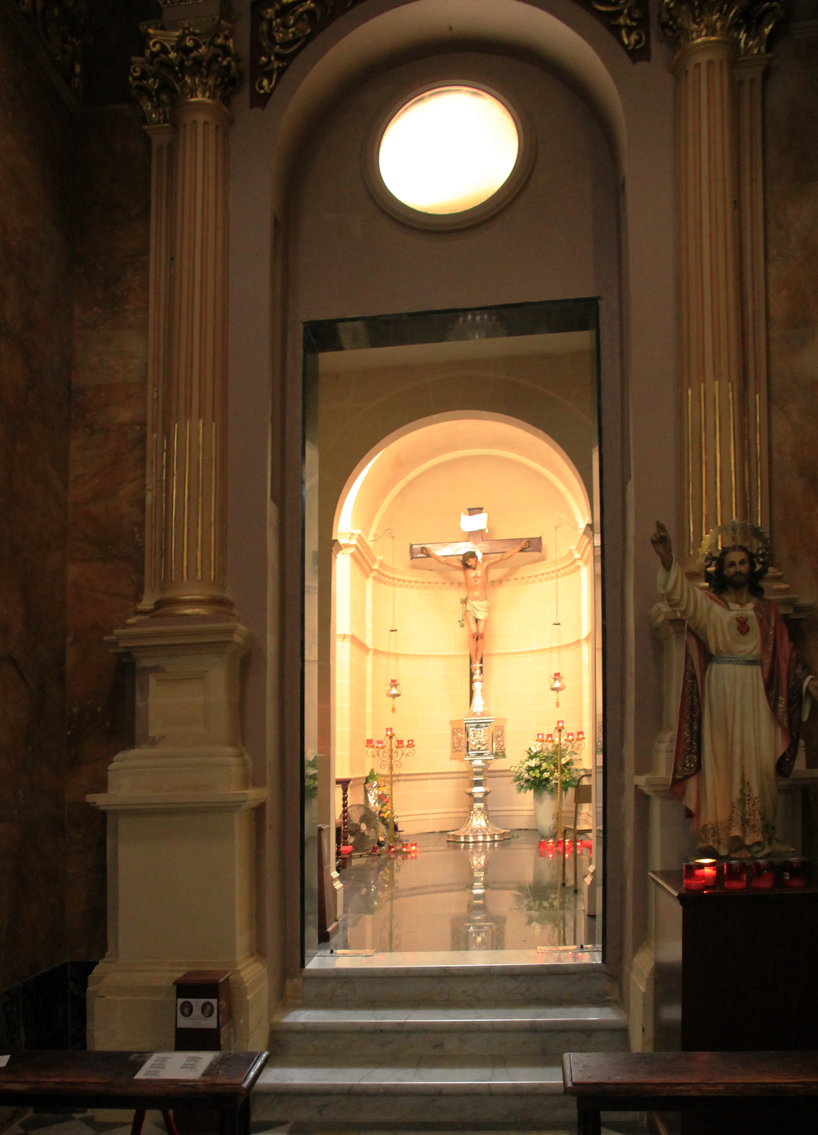 Interior of St. George's Basilica in Victoria - capital of Gozo island, Malta